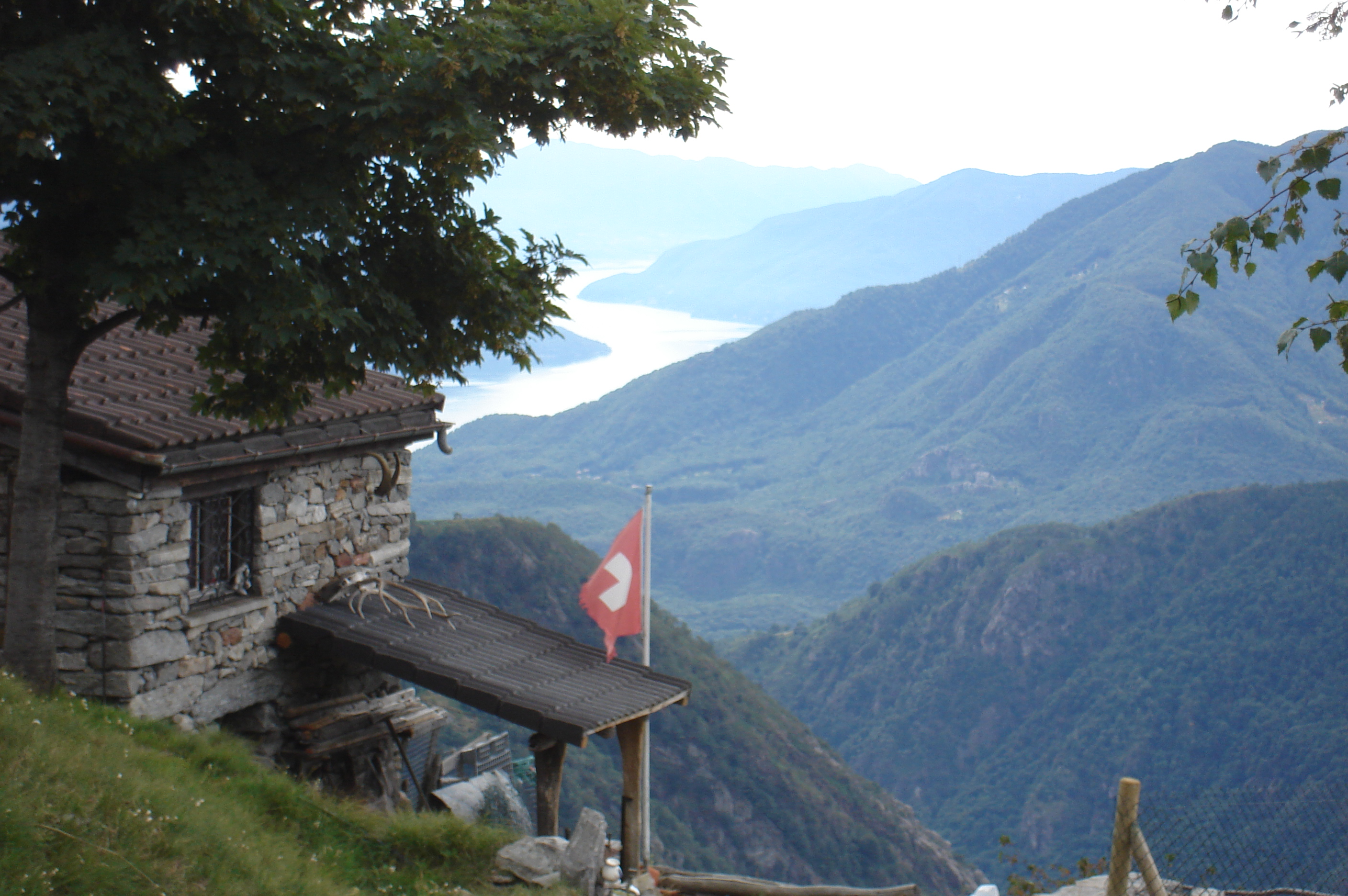 The hamlet of Brunescio on the left flank of Vallemaggia with zig-zagging Lago Maggiore in the background. Own photo made August 2006.